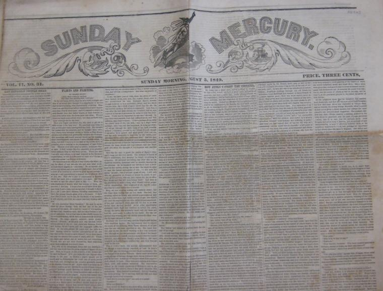 Scan of front cover of August 5, 1849 Sunday Mercury, a weekly newspaper published in New York from 1839-1896.